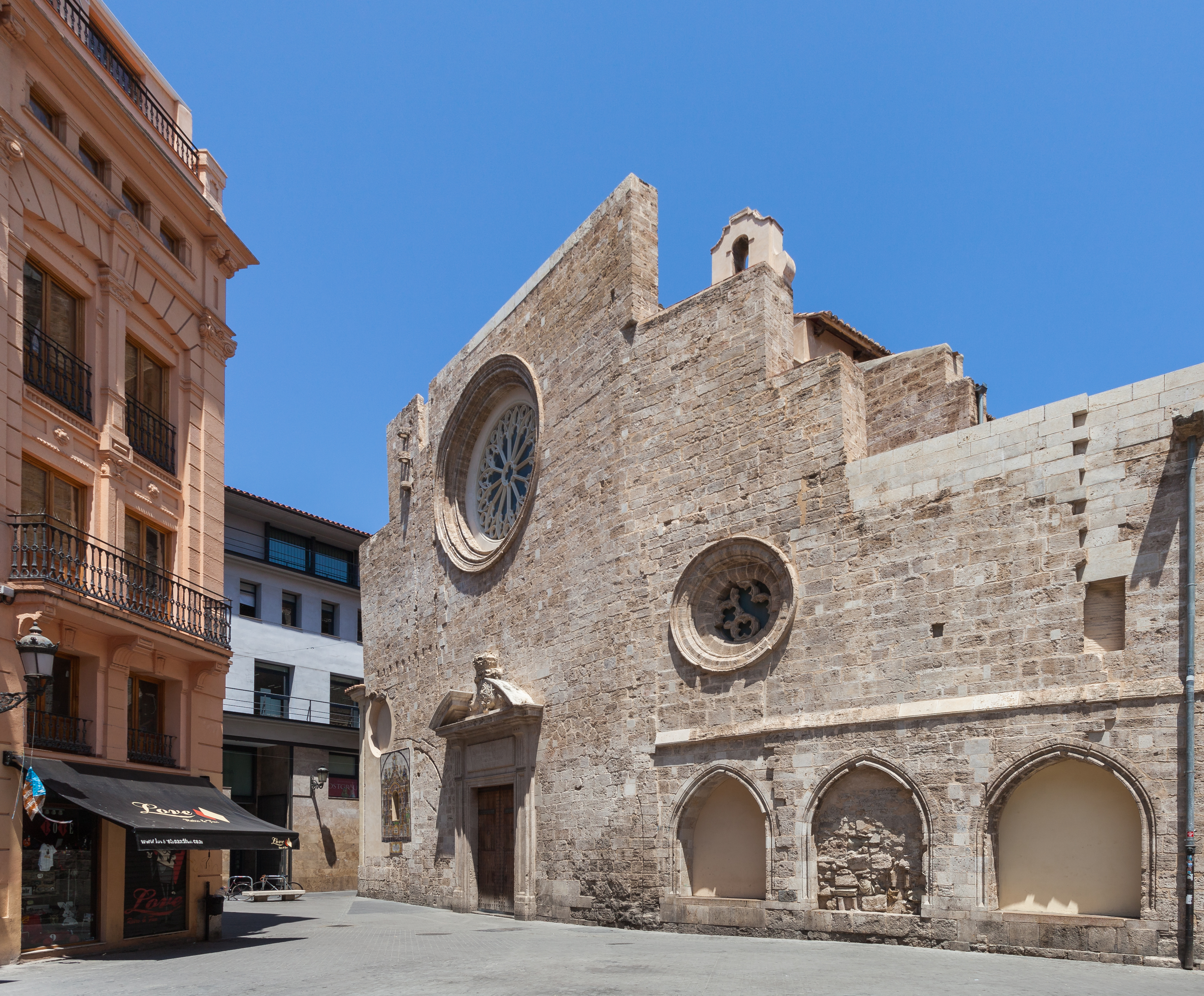 Church of St Catherine, Valencia, Spain